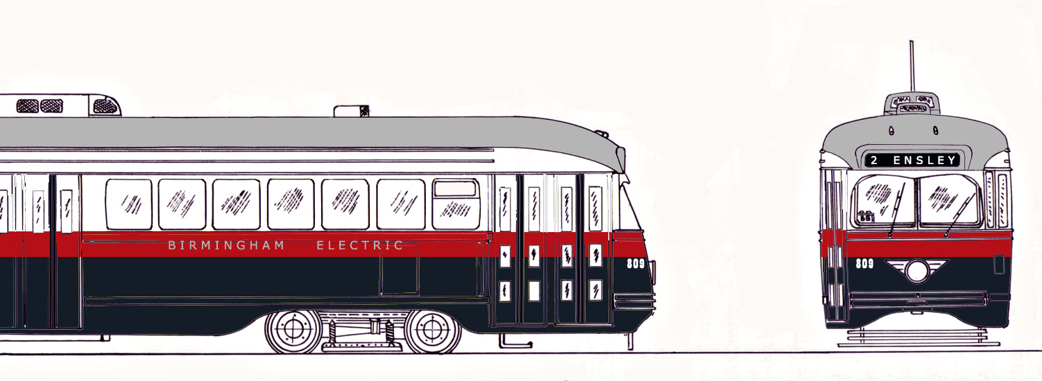 «Birmingham Electric Co. : Color scheme till 1950» (original caption)